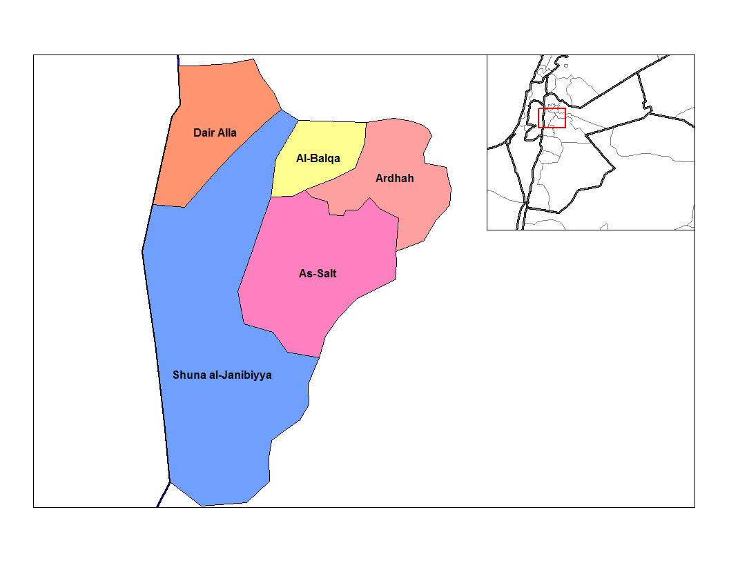 Map of the nahias of Balqa governorate in Jordan. Created by Rarelibra 21:03, 27 December 2006 (UTC) for public domain use, using MapInfo Professional v8.5 and various mapping resources.